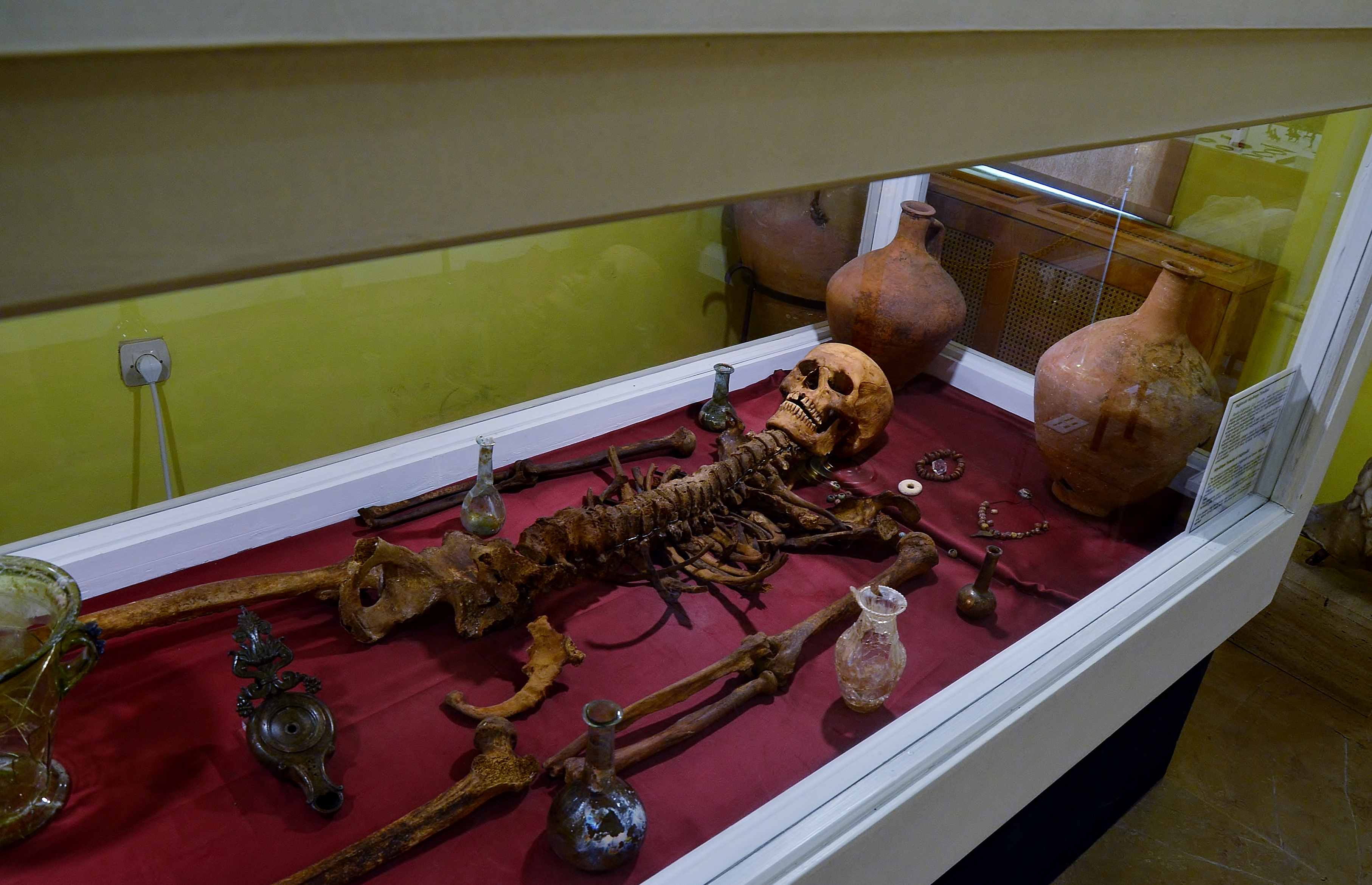 A sarcophagus with human skeleton and grave goods in the Archaeology section of Kırklareli Museum